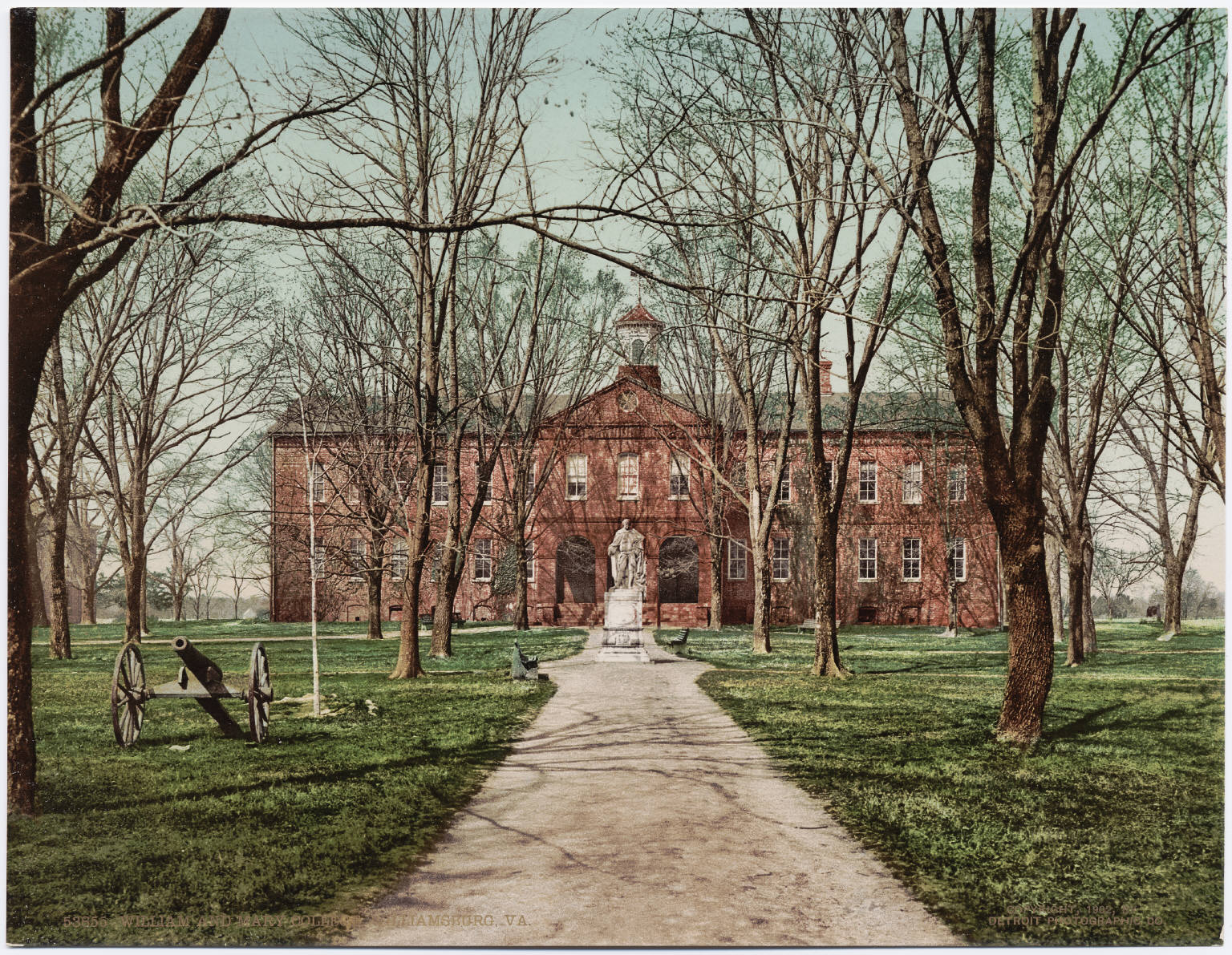 A photochrom postcard published by the Detroit Photographic Company. View of William and Mary College, Williamsburg, Virginia, circa 1902.